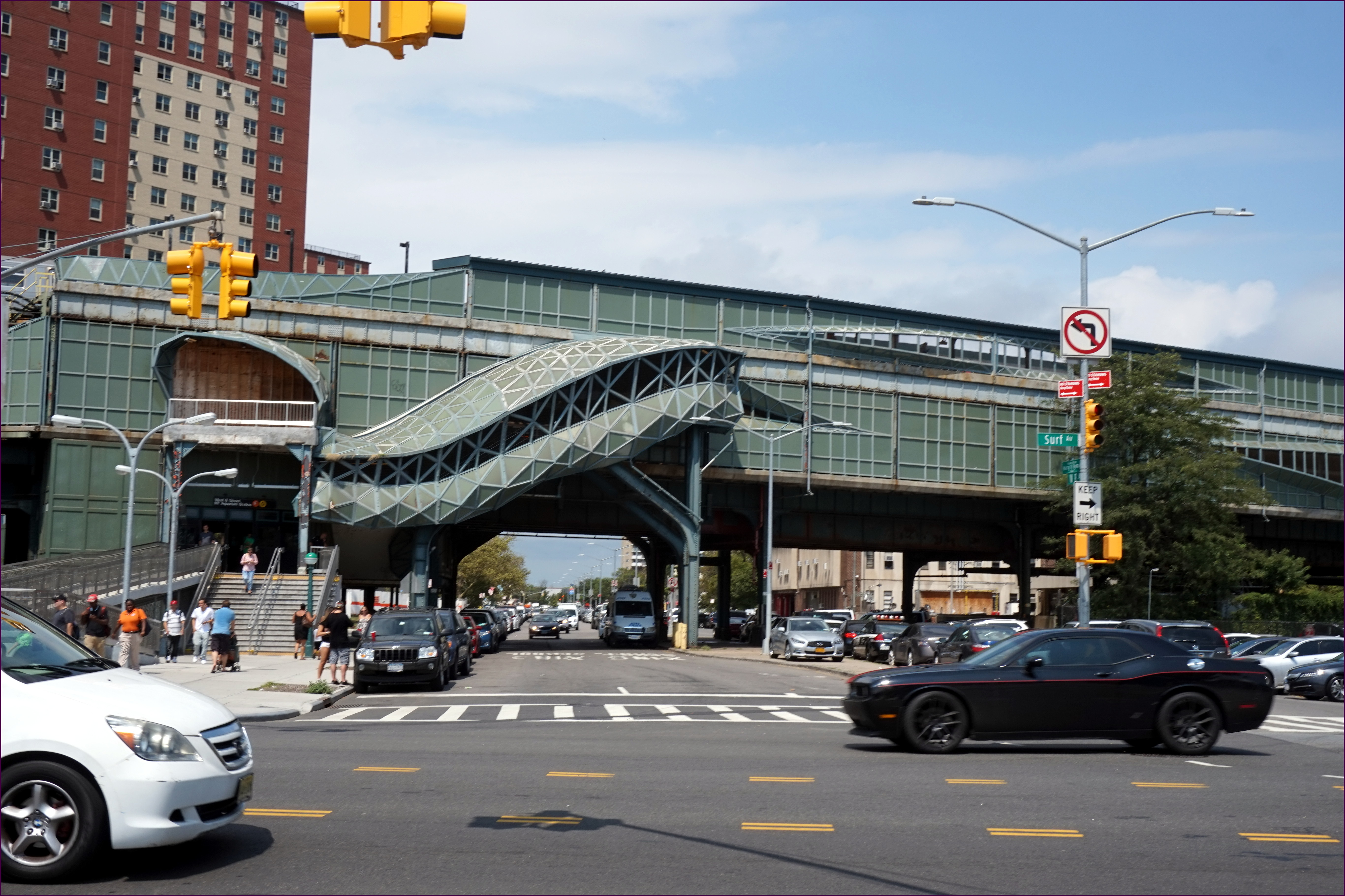 Coney Island and the NY Aquarium